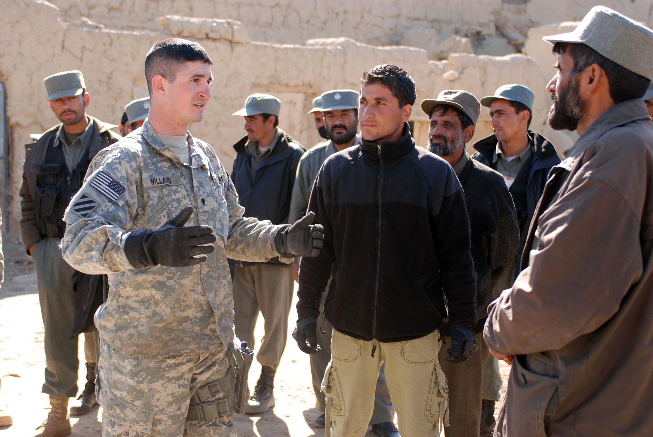 Spc. Brian Willard, a Florida native in the 66th MP Company based out of Ft. Lewis, Washington, teaches a class Feb. 12 on vehicle searches to Afghan National Policemen in Nangarhar Province, Afghanistan.